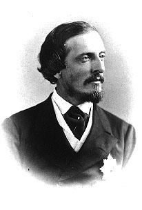 Frederick Hamilton-Temple-Blackwood, 1st Marquess of Dufferin and Ava, Viceroy and Governor-General of India, Governor General of Canada, Chancellor of the Duchy of Lancaster